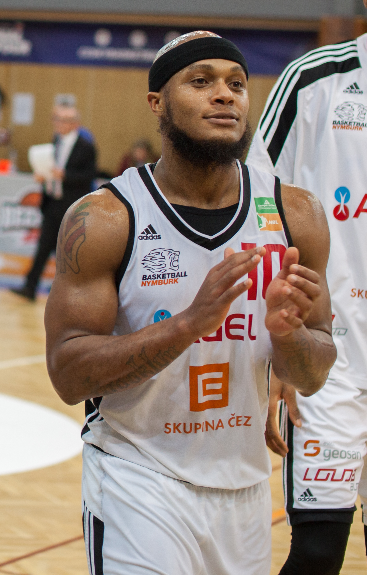 Final match of Czech basketball cup Hyundai Final4 between clubs BK Opava-ČEZ Basketball Nymburk (Nový Jičín, 10 February 2019)